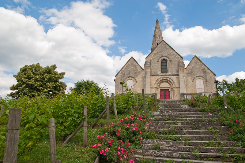 Picture taken in Sartrouville showing the vines of the town in front of the age old Saint Martin church.